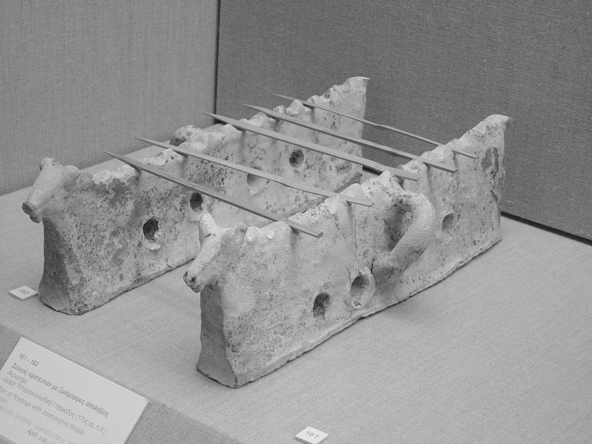 Cycladic (2200-1700 BCE) terra-cotta fire dogs, from an excavation on Santorini